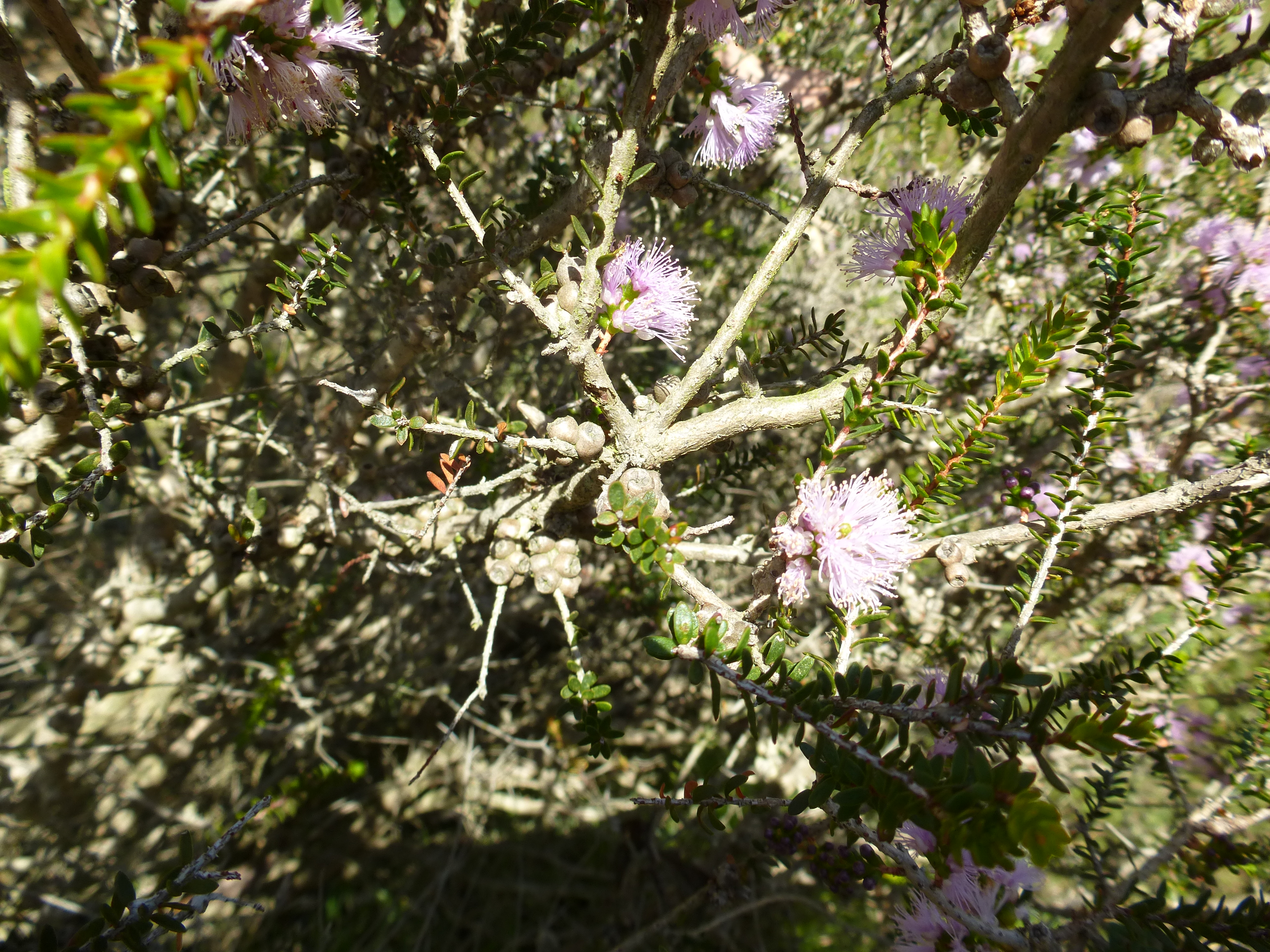 Melaleuca camptoclada at the type location on Chester Pass Road near the Woogenellup Road junction